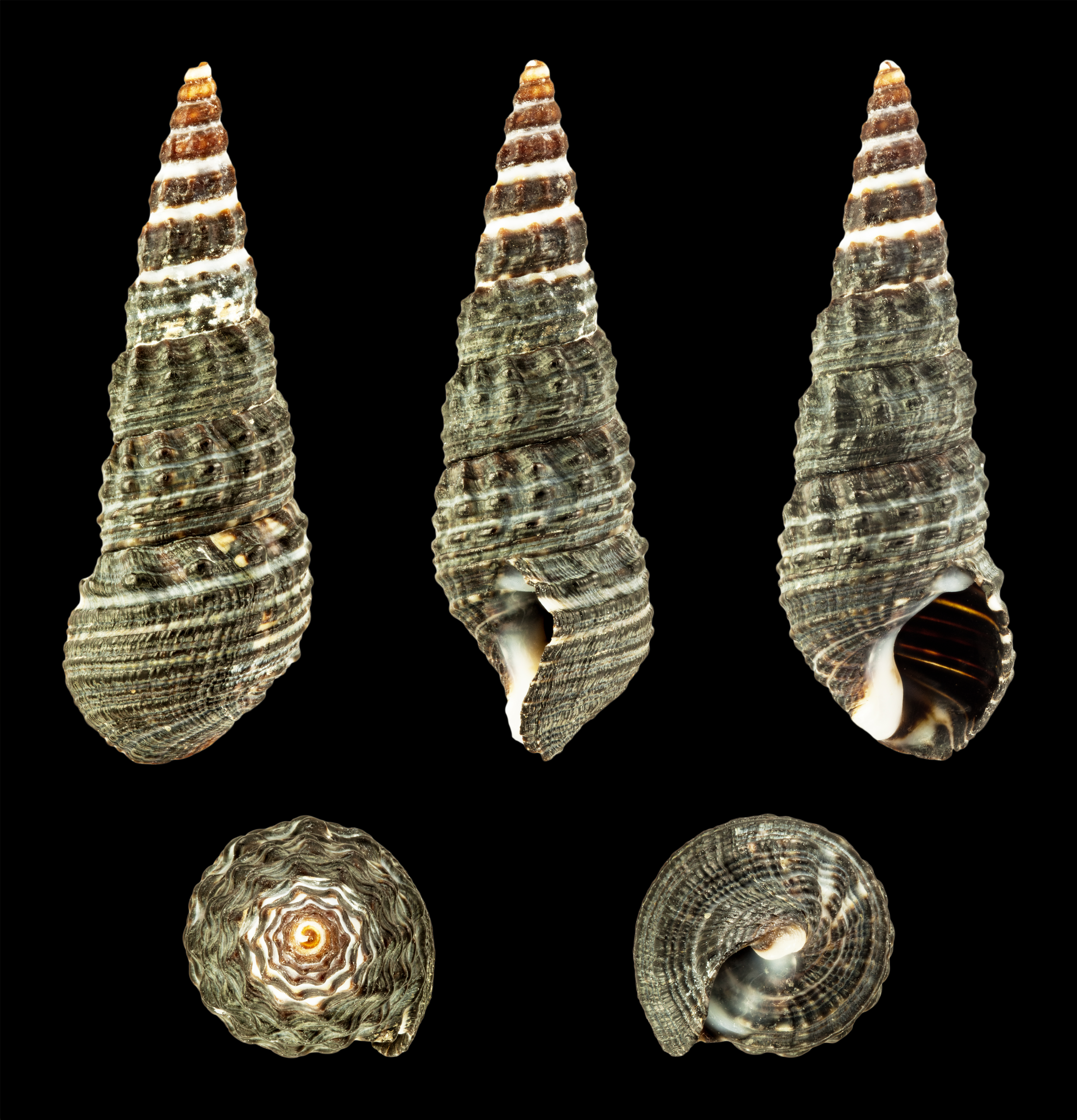 Batillaria zonalis (Bruguière, 1792), dark form; Length 2.8 cm; Originating from Japan; Shell of own collection, therefore not geocoded.